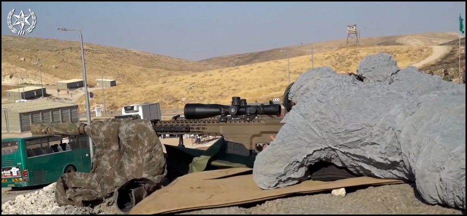 YAMAM snipers with suppressed Barrett MRAD sniper rifle, demonstrating their skills in Israel's President Reuven Rivlin's visit to Israeli Border Police training base, July 2019